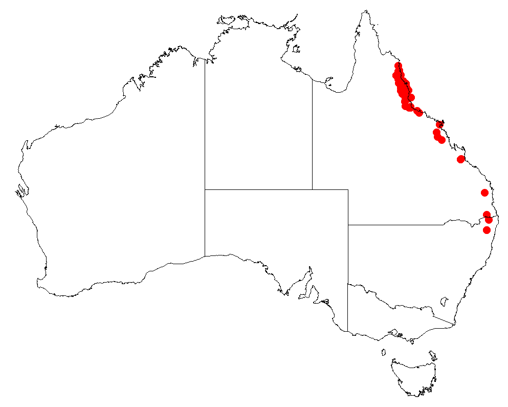 Parsonsia latifolia Occurrence data for Australia from Australasian Virtual Herbarium downloaded 22 December 2018